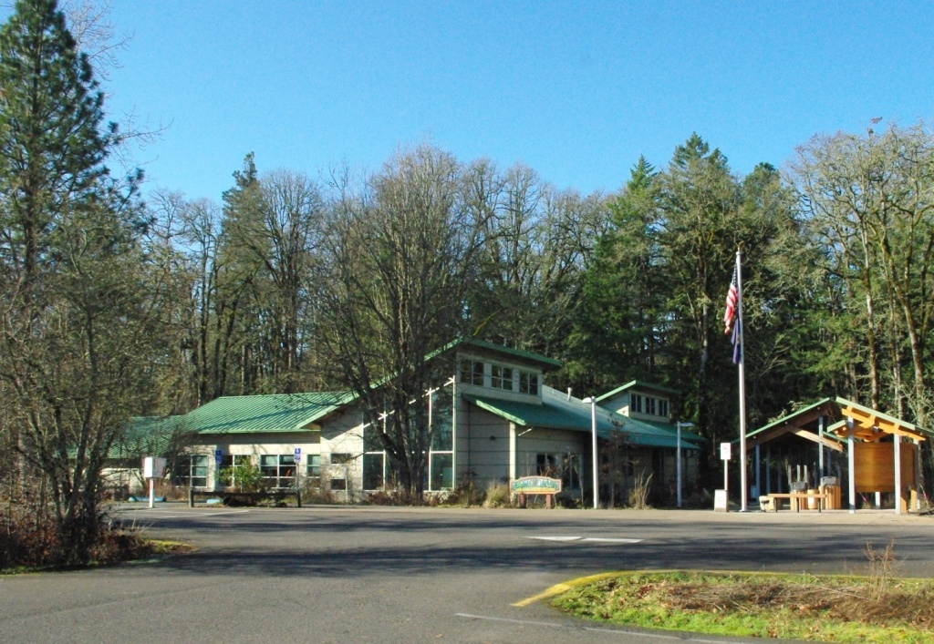 Interpretive center for the Tualatin Hills Nature Park in Beaverton, Oregon, USA, operated by the Tualatin Hills Park & Recreation District.